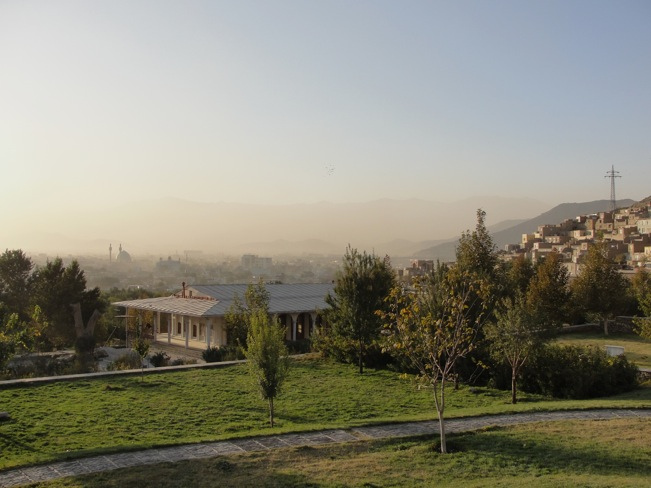 Babur’s Gardens laid out in the early 16th century by the ruler Babur, founder of the Mughal Empire, conqueror of India and self-proclaimed descendant of Genghis Khan.